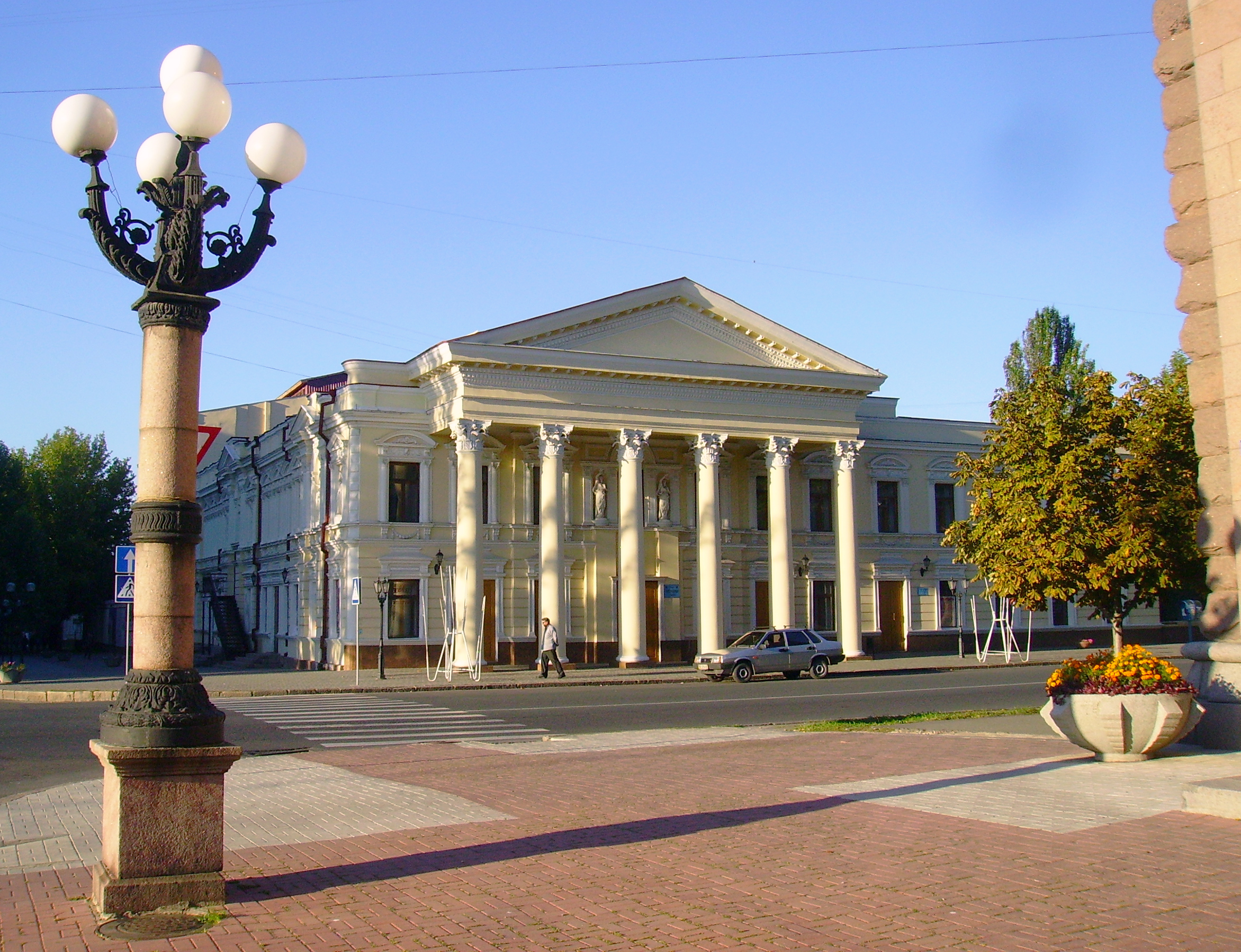 Russian Drama Theatre in Mykolaiv, Ukraine